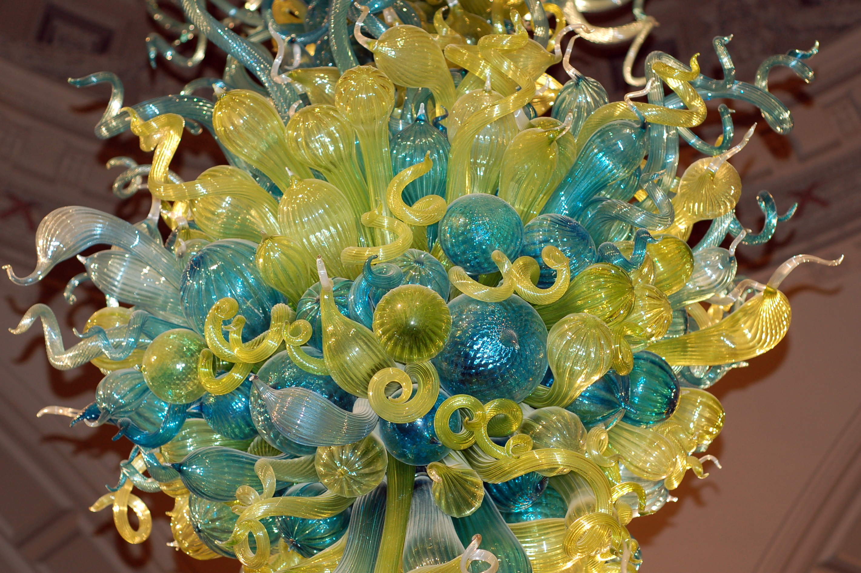 The Dale Chihuly Chandelier at the V&A Musueum, London. Snapped on a trip to see the exhibition Shadow Catchers: Camera-less Photography (pretentious rubbish if you ask me)